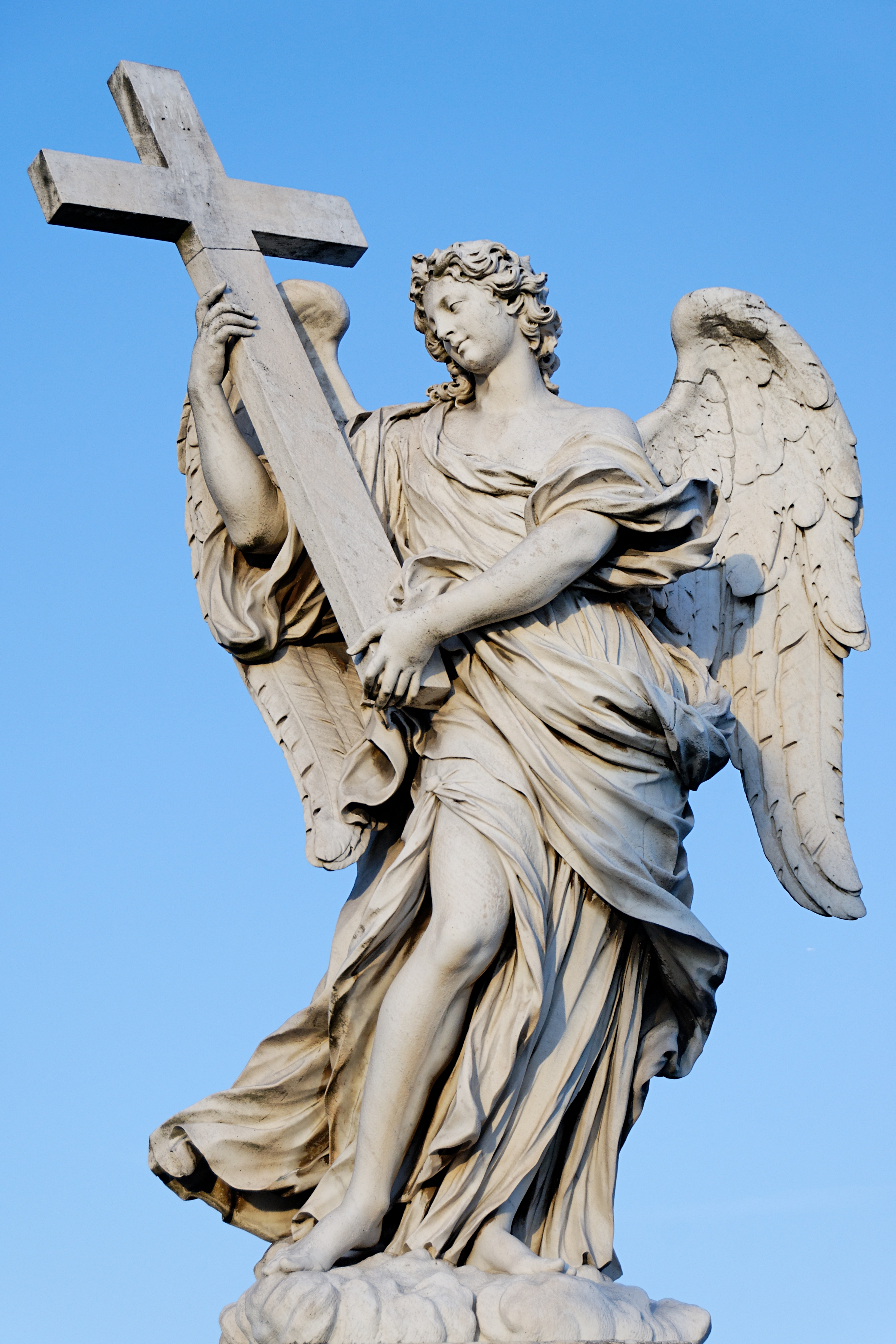 Angel bearing a cross by Ercole Ferrata, with the inscription “cujus principatus super humerum eius” ("the government shall be upon his shoulder", Isaiah 9:16), eastern side of the Ponte Sant'Angelo à Rome.